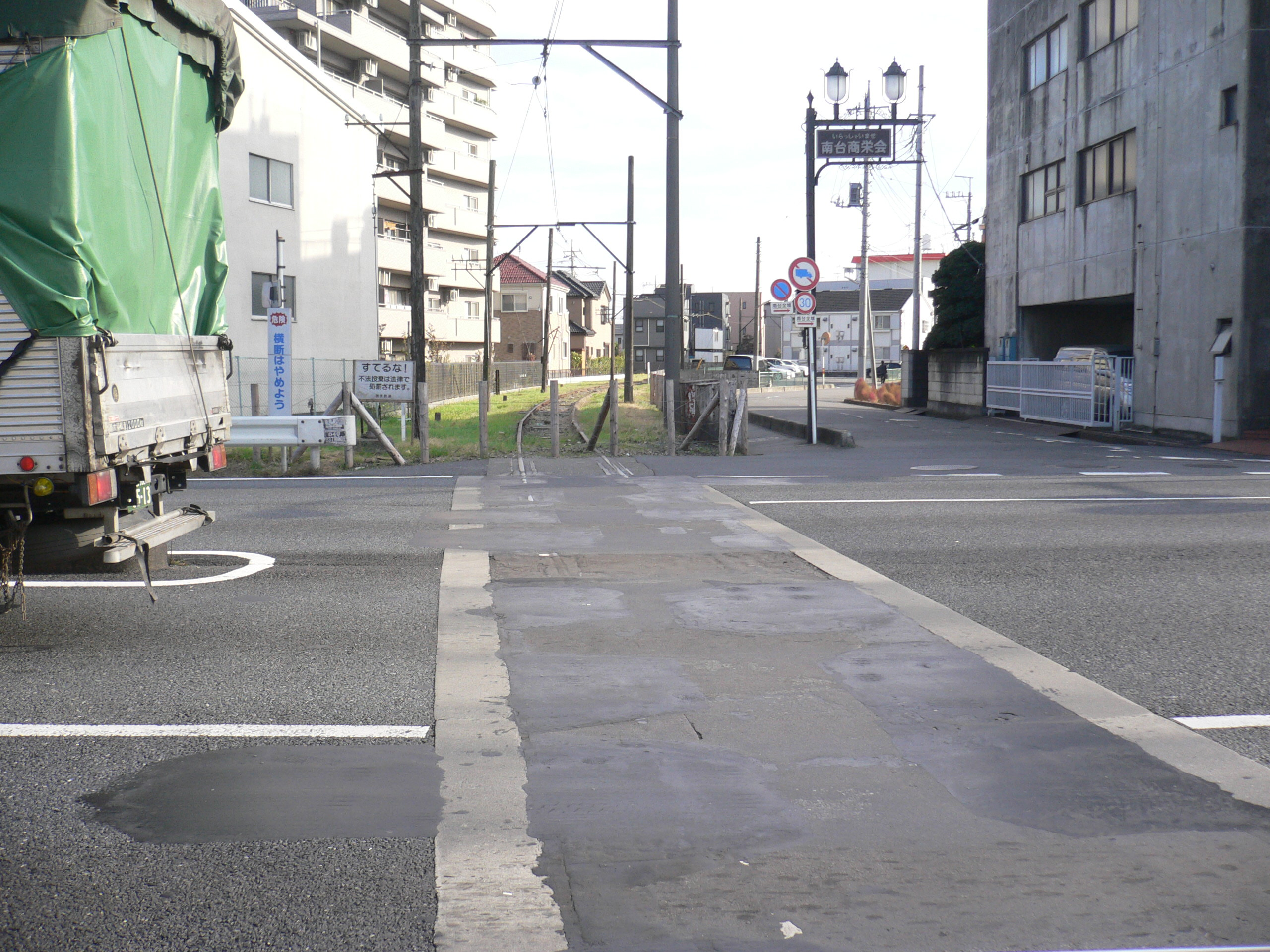 National Route 16 & Seibu Ahina Line, in Kawagoe City, Saitama Prefecture, Japan